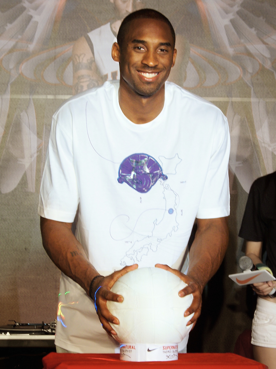 Kobe Bryant participated NIKE Taipei Flagship Store Launch Ceremony at his 2007 Asia Tour.